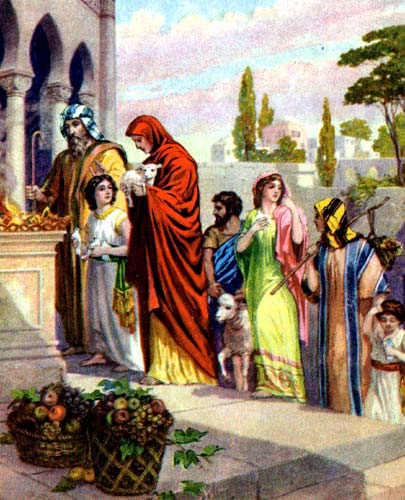 The story of a thanksgiving day, as in the offering of first fruits in Deuteronomy 26:1-11, illustration from a Bible card published by the Providence Lithograph Company between 1896 and 1913